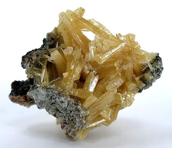 Mimetite Locality: Tsumeb Mine (Tsumcorp Mine), Tsumeb, Otjikoto (Oshikoto) Region, Namibia (Locality at ) Size: 4.1 x 3.5 x 2.8 cm. Brilliantly sparkling, lustrous, translucent yellow crystals of top color intersect to make this lovely cluster. Some damage as you would expect, and contacting, but overall a beautiful piece that really shows off why Tsumeb mimetites are so famous still today. Ex. Charlie Key stock.